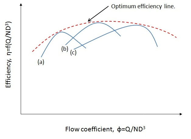 This image shows envelope of optimum efficiency for various blade settings.